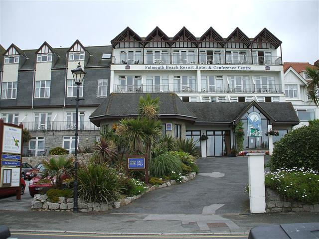 Falmouth Beach Hotel It overlooks the beach.